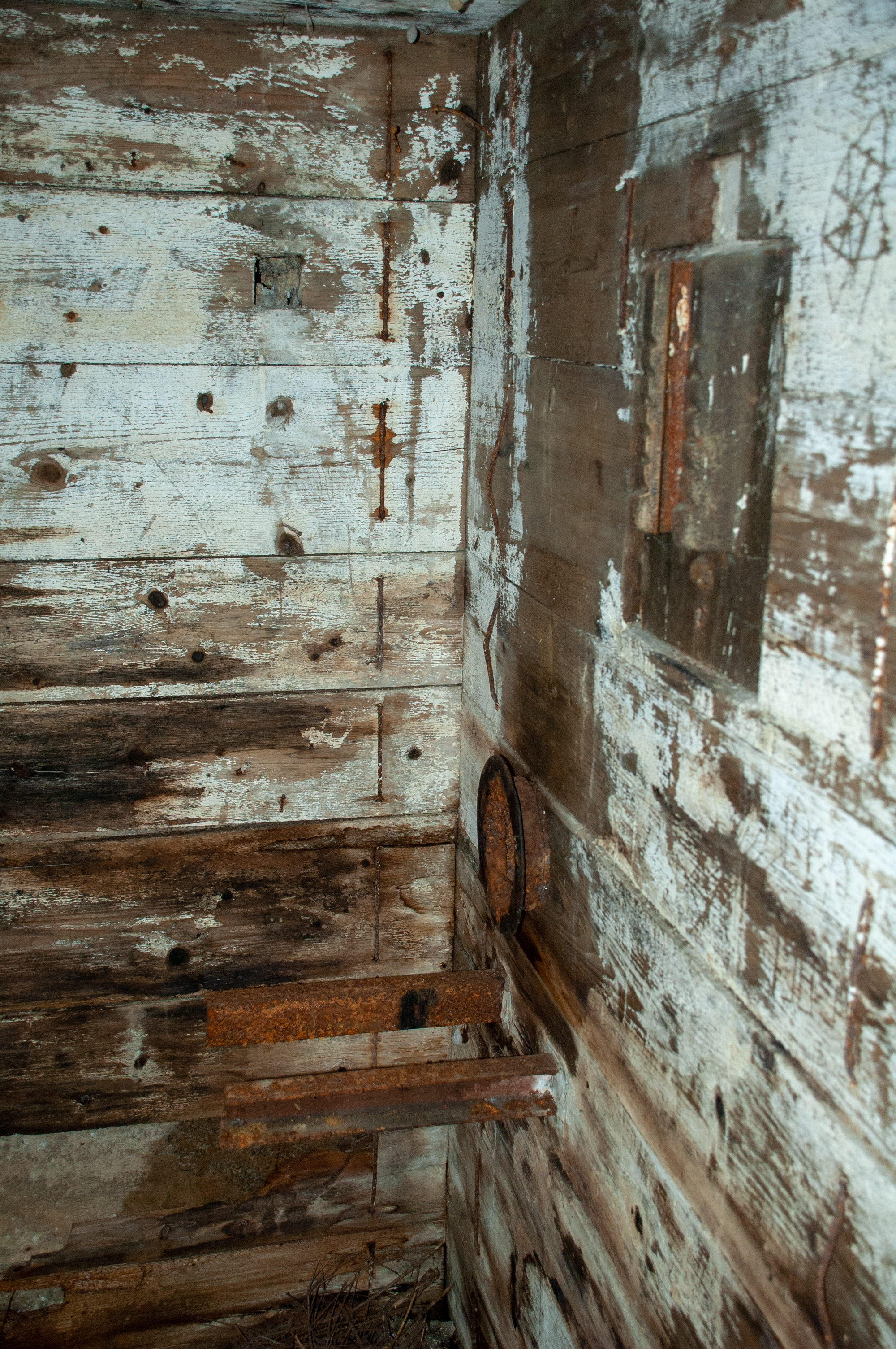 This image was created as a part of Editaton Prachatice (Czech).